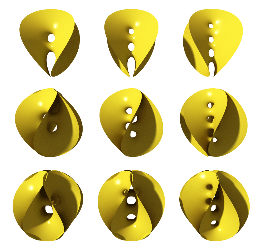 The simplest nine members of the Chen-Gackstatter-Thayer family of minimal surfaces. These surfaces add handles to the Enneper surface (horizontal) and increase the winding order (vertical). The surface meshes are originally from the Scientific Graphics Project at MSRI.